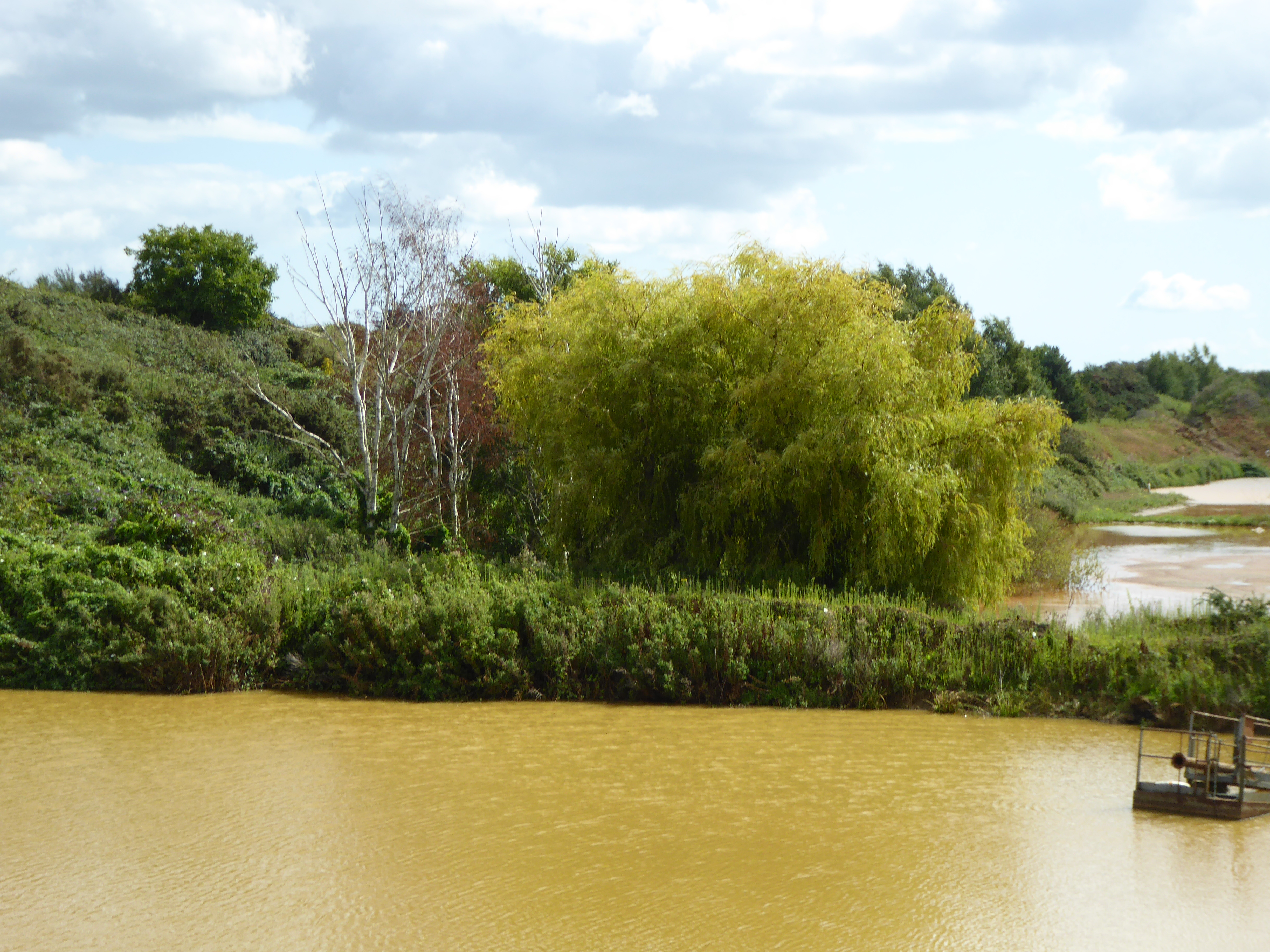 Waldringfield Pit is a geological Site of Special Scientific Interest west of Waldringfield in Suffolk.